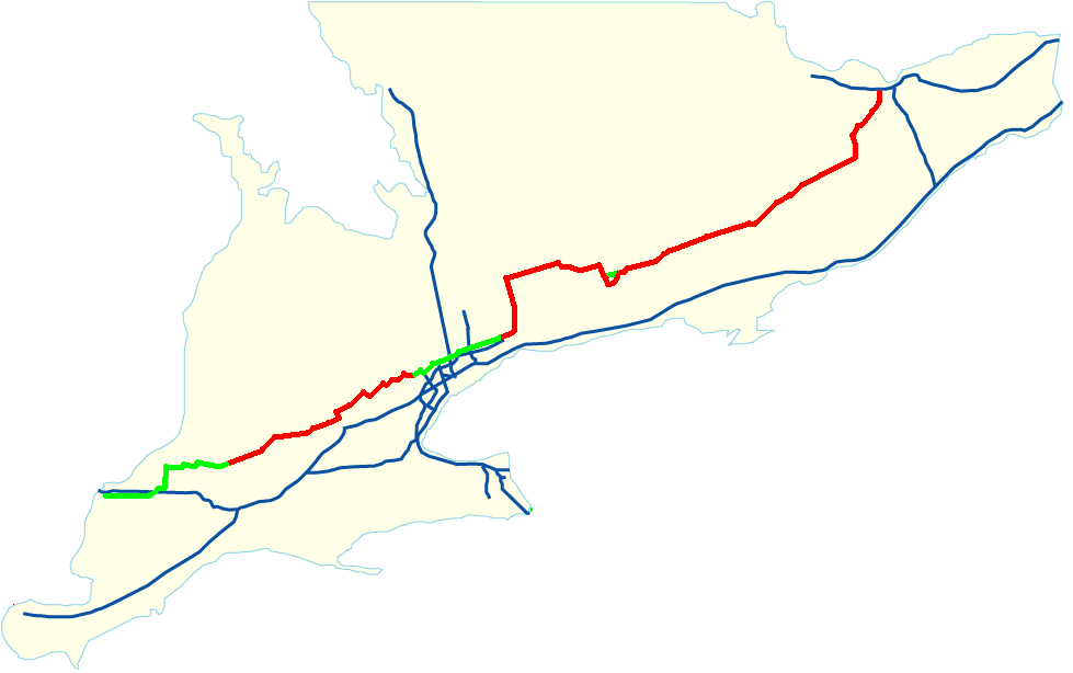 based on the maps by User:Snickerdo